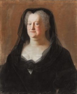 So-called Maria Theresa (1717-1780), but probably portrait of her mother Empress Elisabeth Christine (1691-1750)